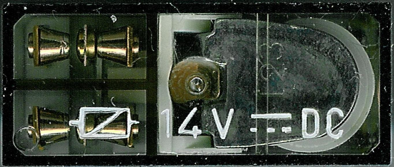 2NC/NO Relay